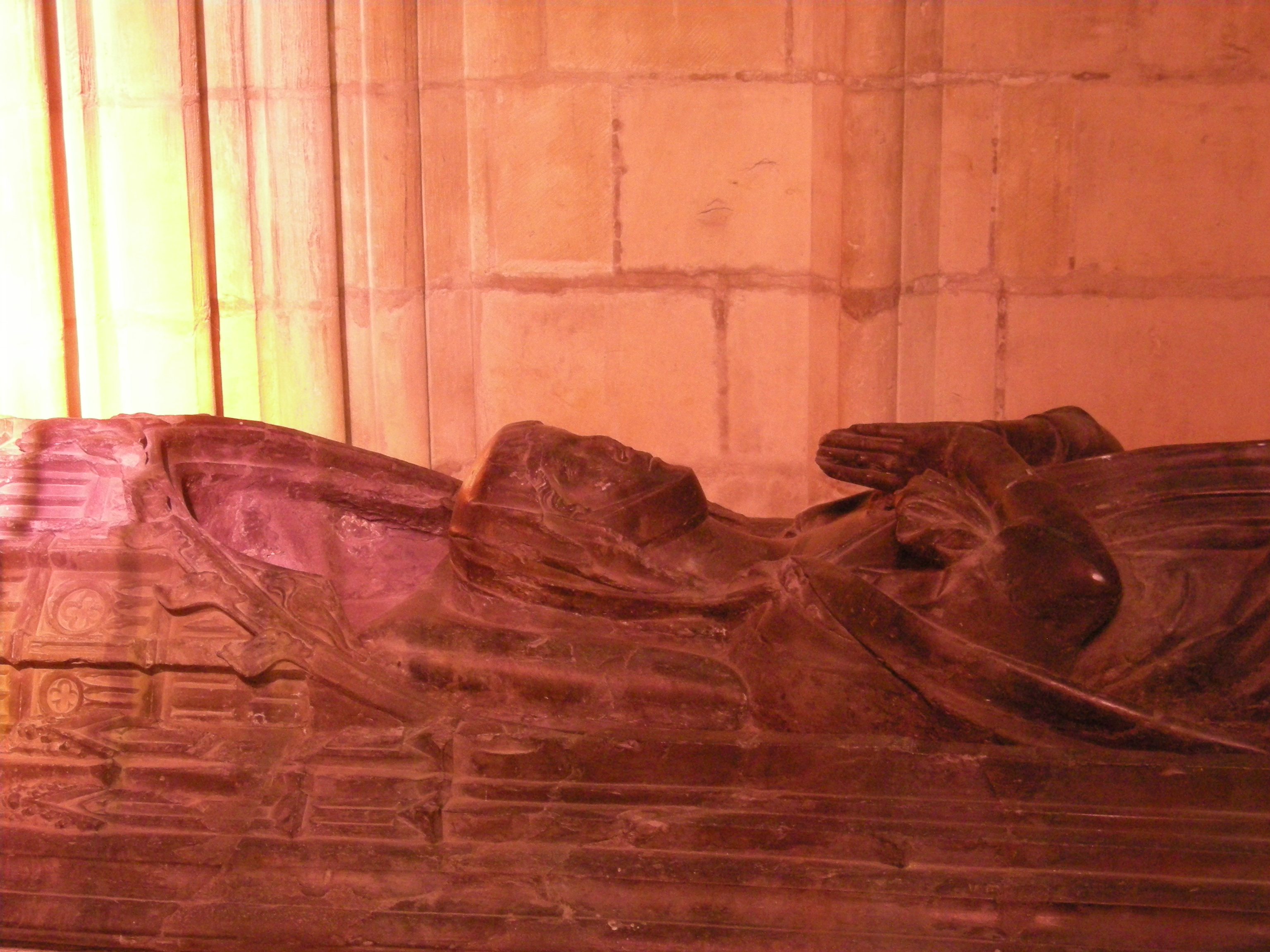 recumbent effigy of Yolande de Bourgogne countess of Nevers. Nevers cathedral, Nièvre, France